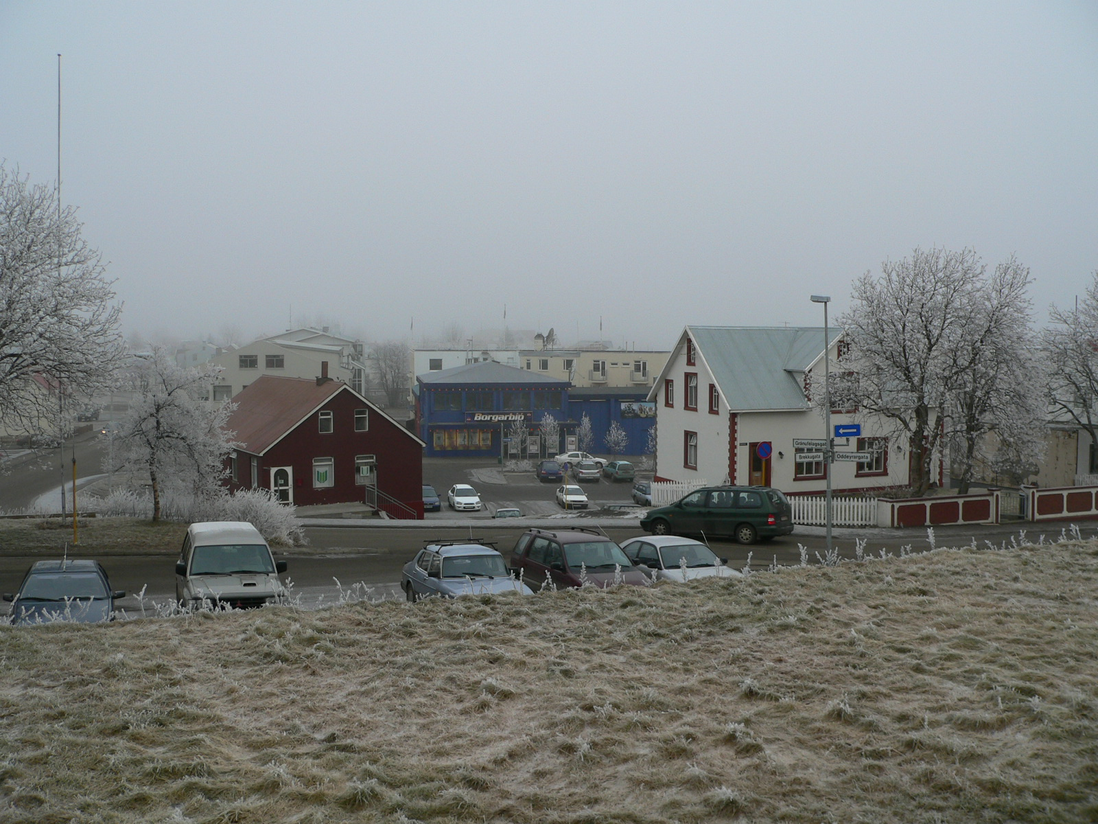 Snow formations in Akureyri, Iceland.